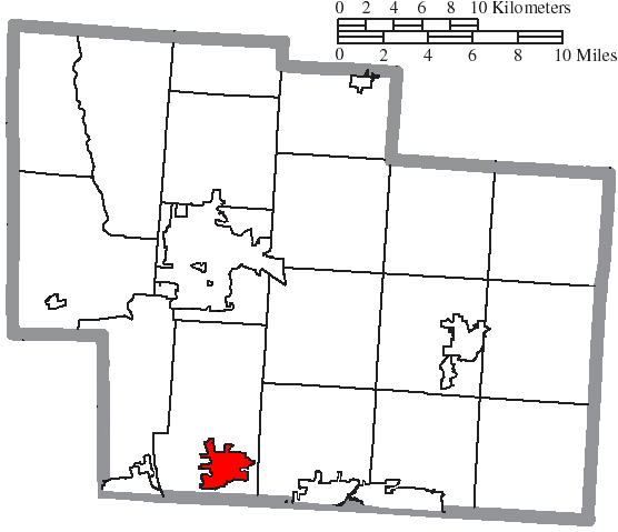 Map of the municipal and township boundaries of Delaware County, Ohio, United States, as of the 2000 census, with the location of the city of Powell highlighted. Township borders are shown only in unincorporated areas in order to differentiate incorporated and unincorporated areas more clearly.